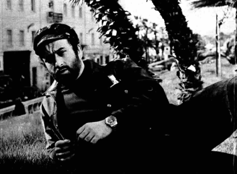 Italian singer Lucio Dalla in Sanremo for the 1971 Sanremo Music Festival